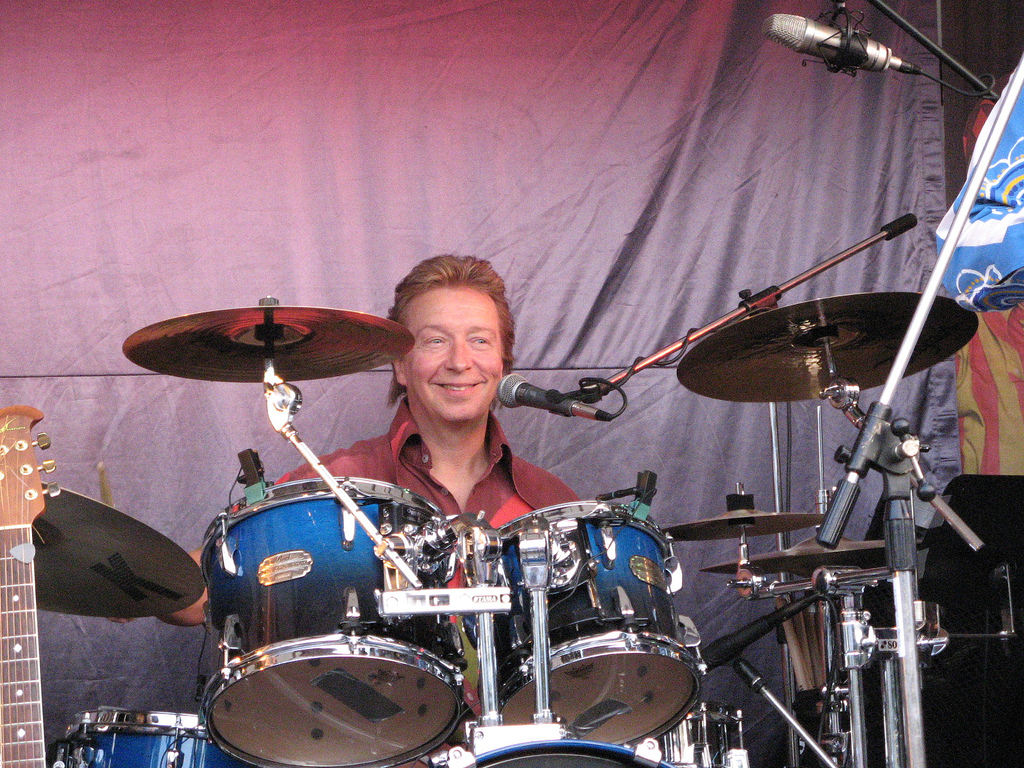 Kristian "Kisu" Jernström with great smile